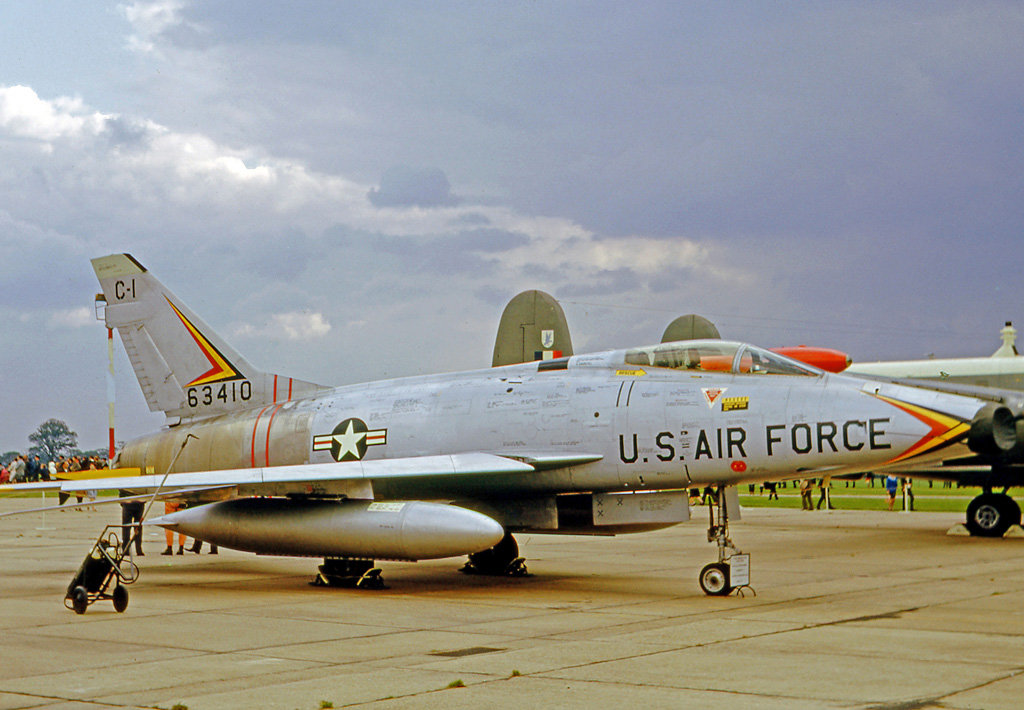 North American F-100D Super Sabre 56-3410 of 494 TFS 48 TFW in 1965.